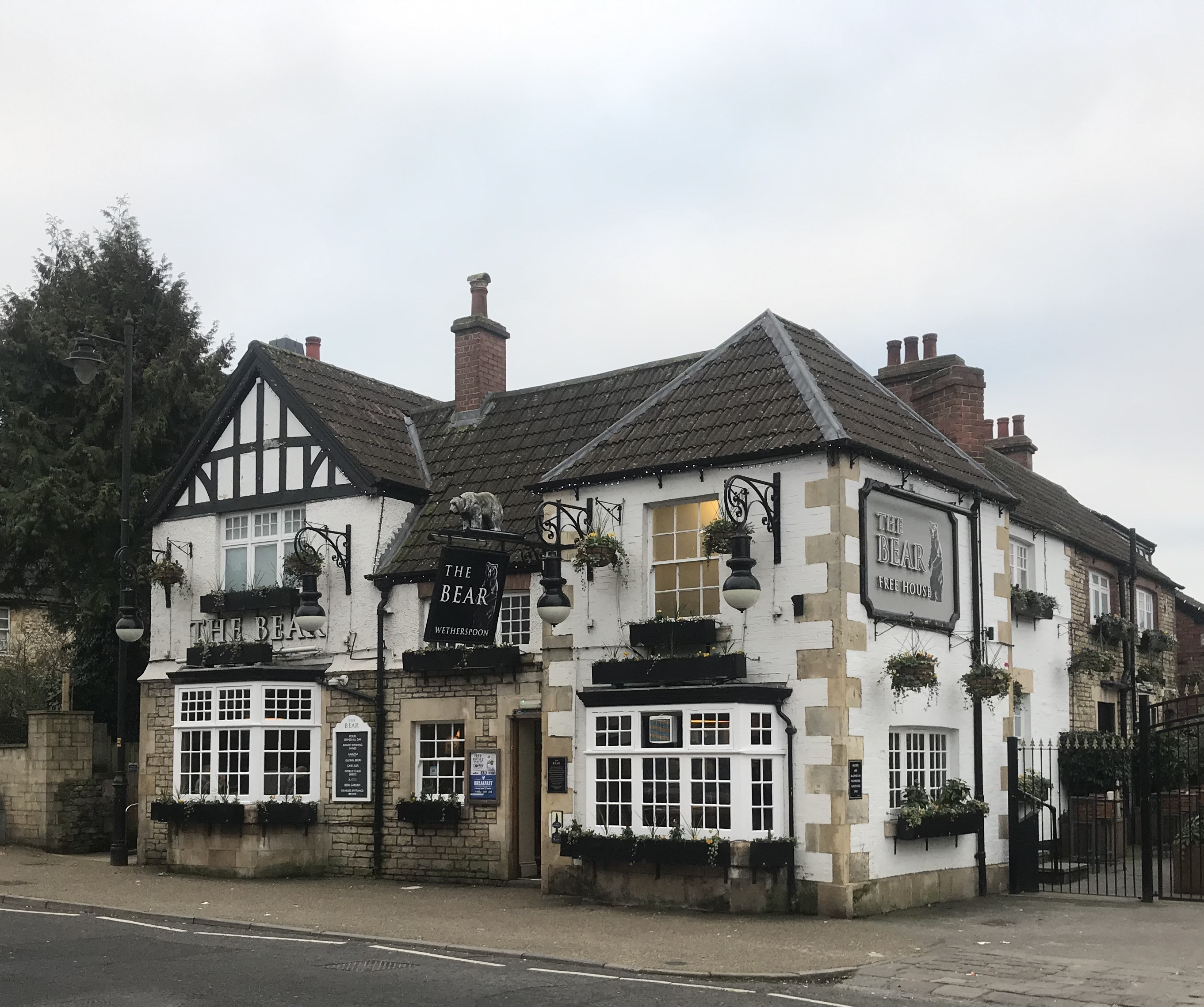 The Bear, Melksham, Wiltshire, England